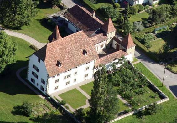 Schwarzenburg Castle seen from the air.